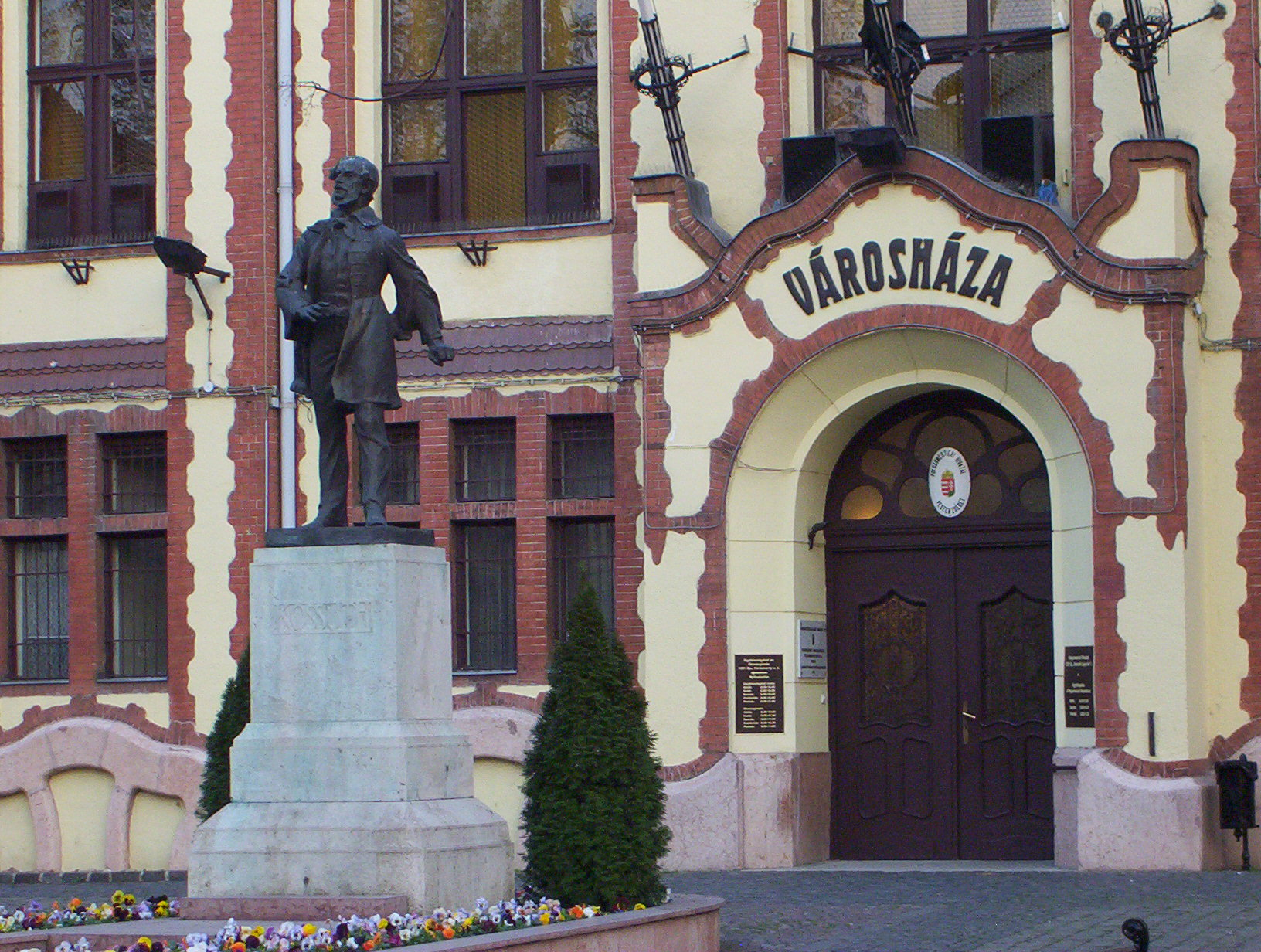 Town center of the twentieth district of Budapest with sculpture of Kossuth Lajos in the foreground